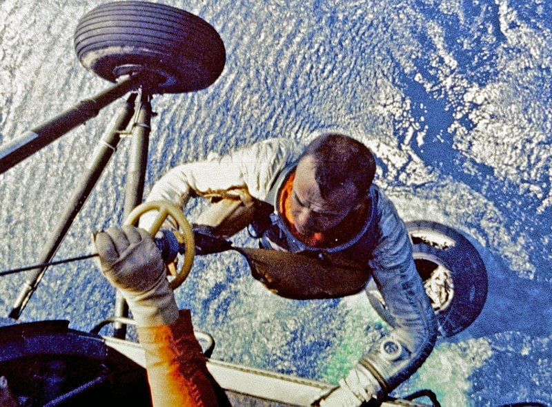 Derived from Shepard Hoisted into Recovery Helicopter - GPN-2000-001361-crop.jpg